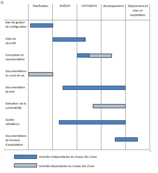 Intégration des exigences des CC dans le SI